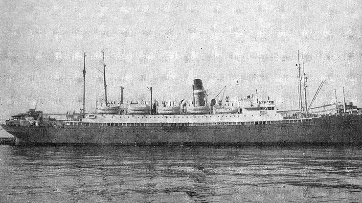 The U.S. Army transport USAT Bridgeport in port, circa in 1946, after the ship had been converted from the U.S. Army hospital ship Larkspur.